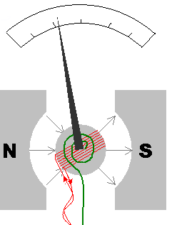 Diagram showing the basic internal workings of a D'Arsenval/Weston coil galvanometer.